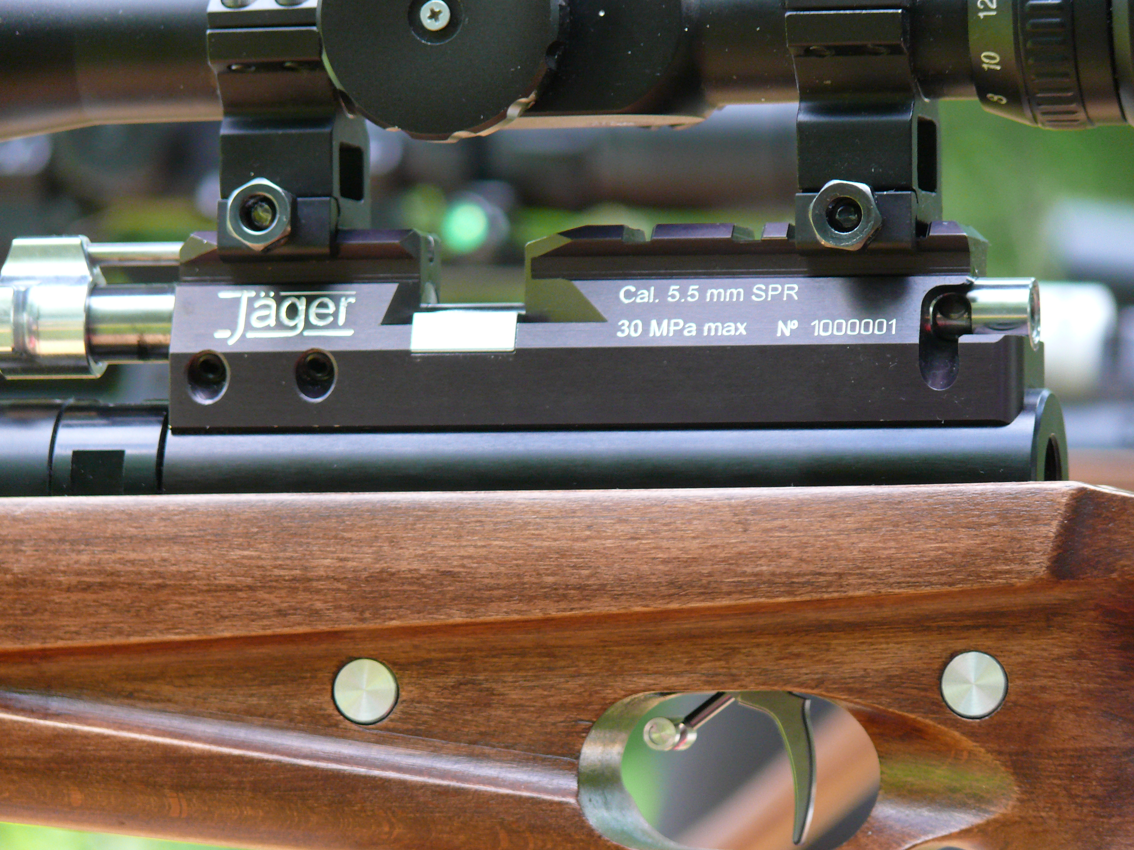 Body of Jäger PCP rifle